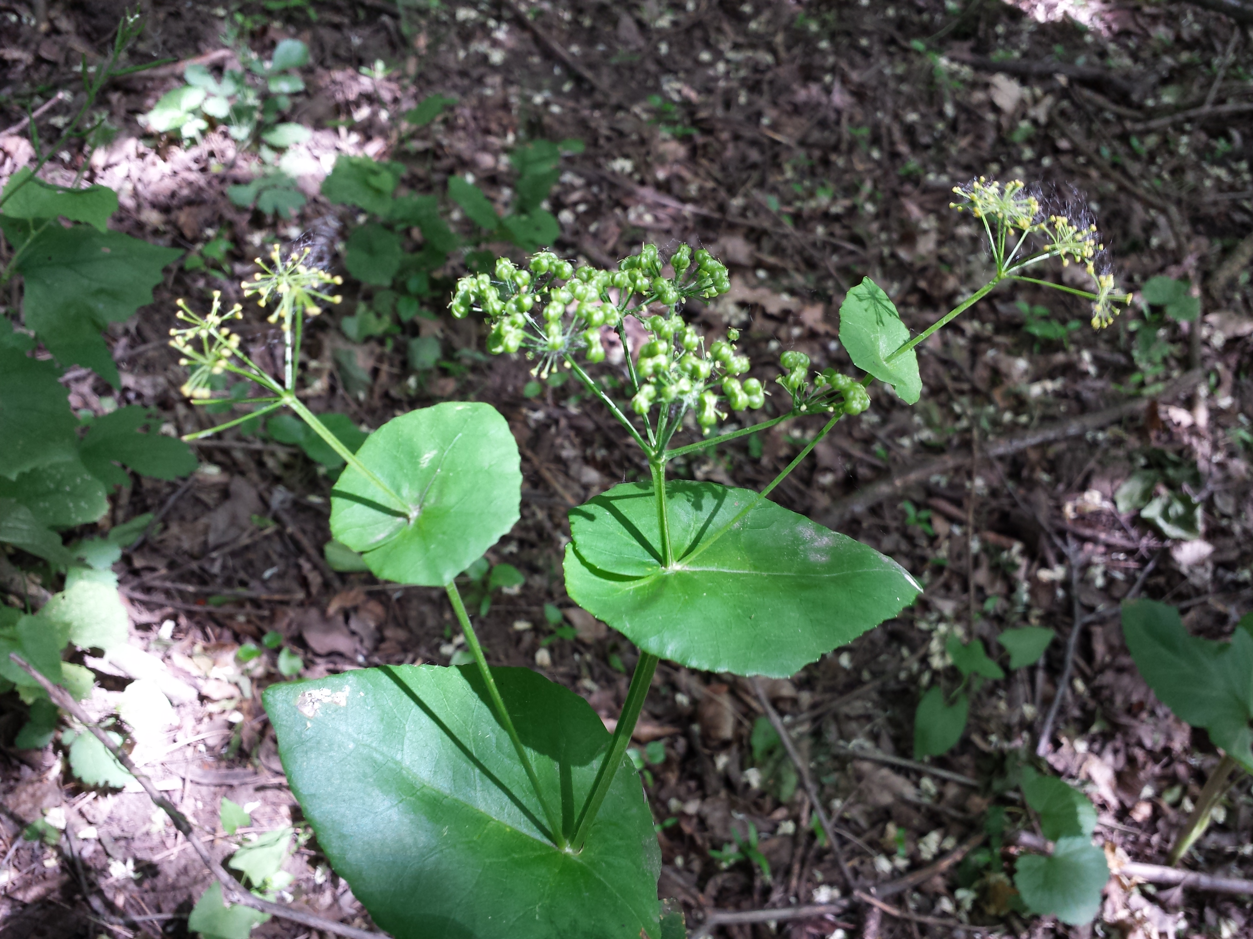 Florescence Taxon: Smyrnium perfoliatum (sensu Fischer et al. EfÖLS 2008 ISBN 978-3-85474-187-9) Location: Devínska Kobyla, Bratislava, Slovakia - ca. 250 m a.s.l. Habitat: wettish wood